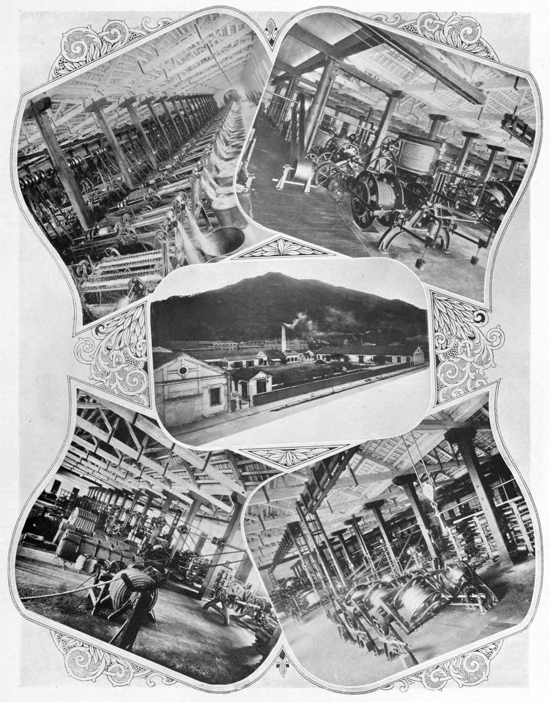 hong kong rope manufactory